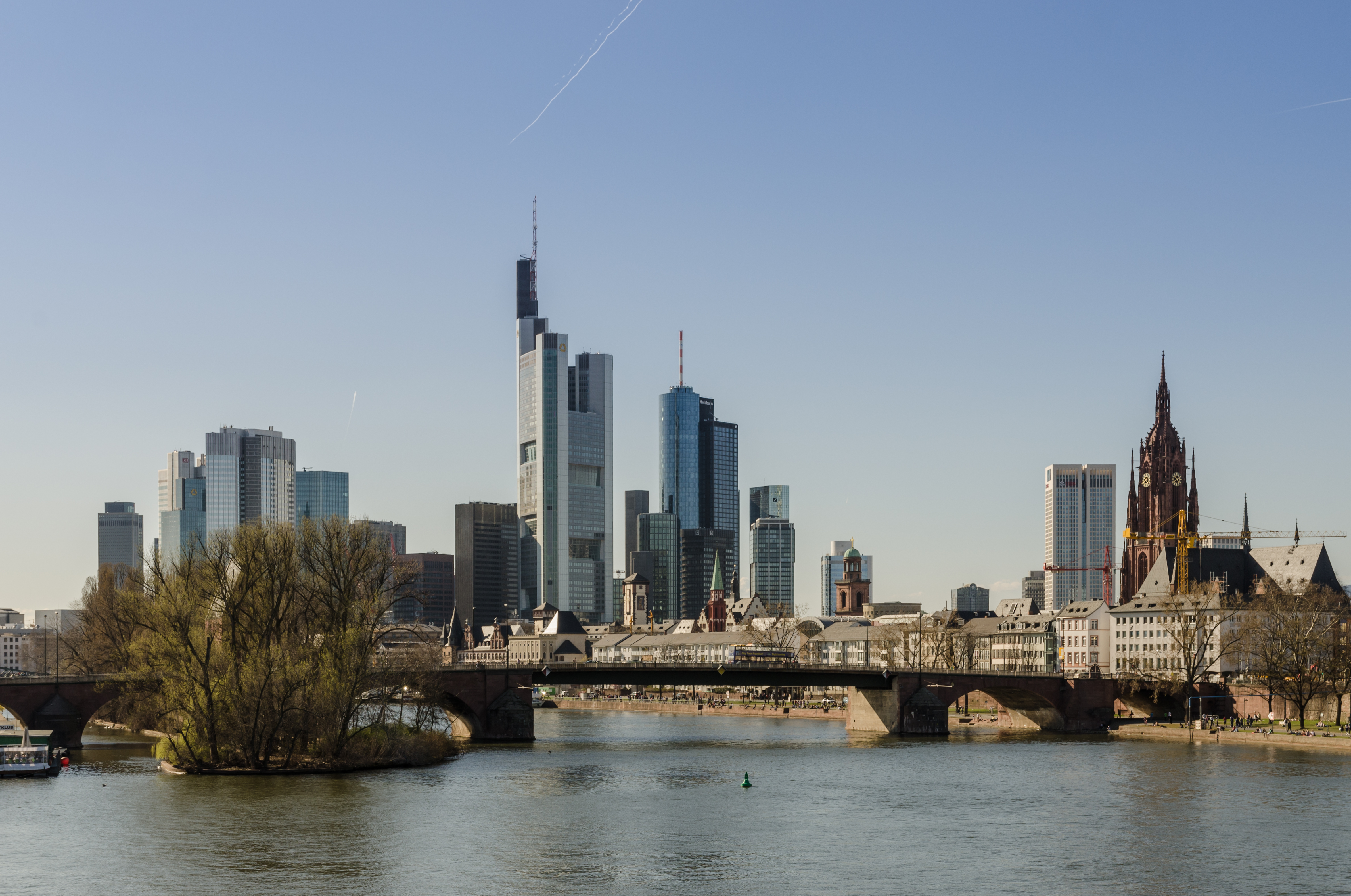 Skyline of Frankfurt Main, Germany.